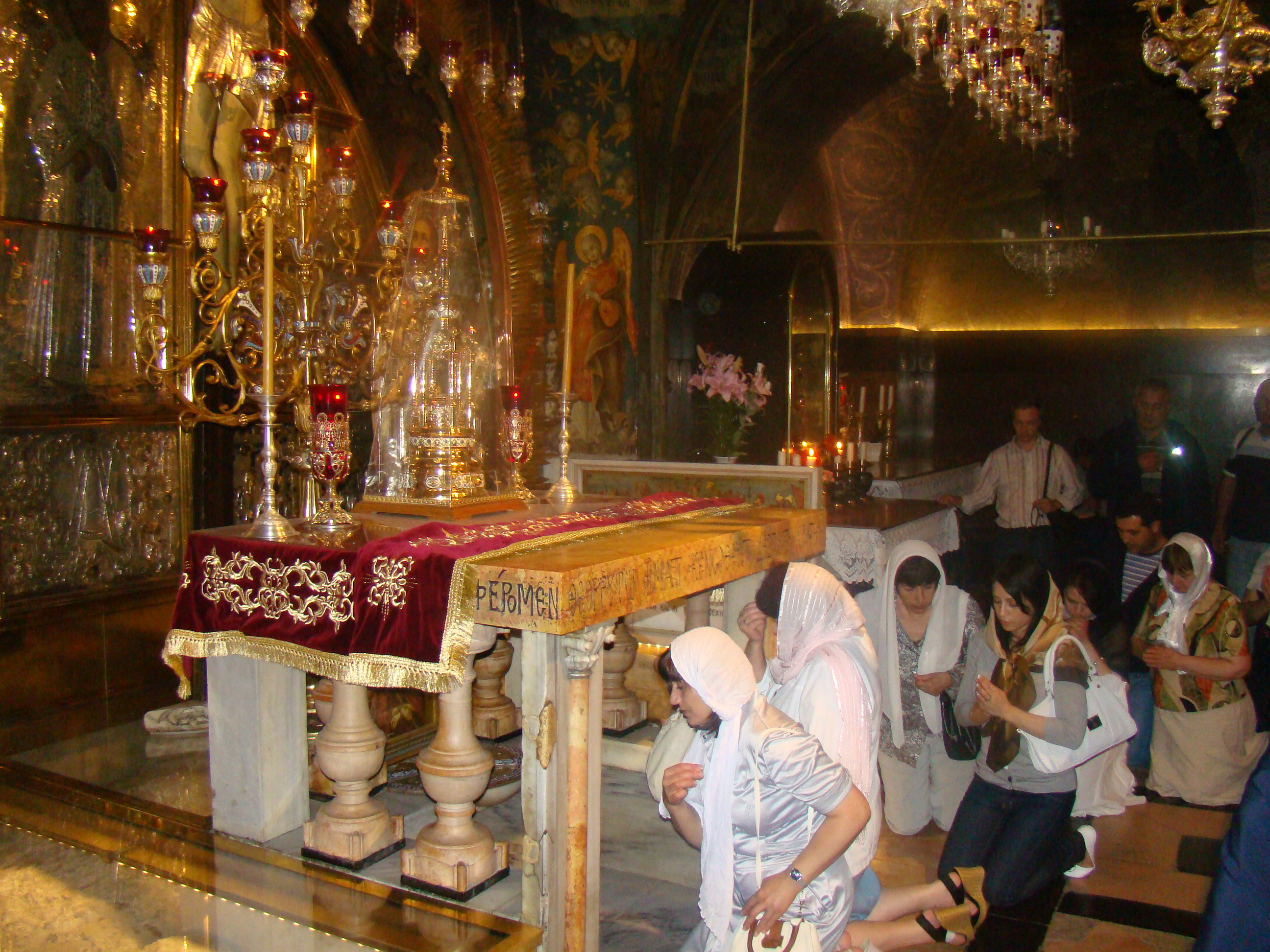 Sourb Gevorg church in Holy Land